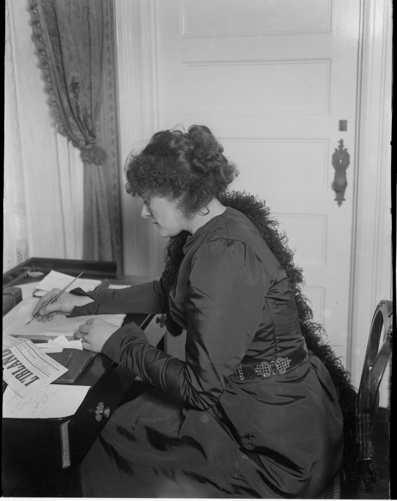 Accession Number: 1974:0056:0485 Maker: William M. Vander Weyde (American 1871–1929) Title: Maude Gonne, Irish Patriot Date: ca. 1900 Medium: negative, gelatin on glass Dimensions: 8.5 x 6.5 inches George Eastman House Collection General – information about the George Eastman House Photography Collection is available at For information on obtaining reproductions go to